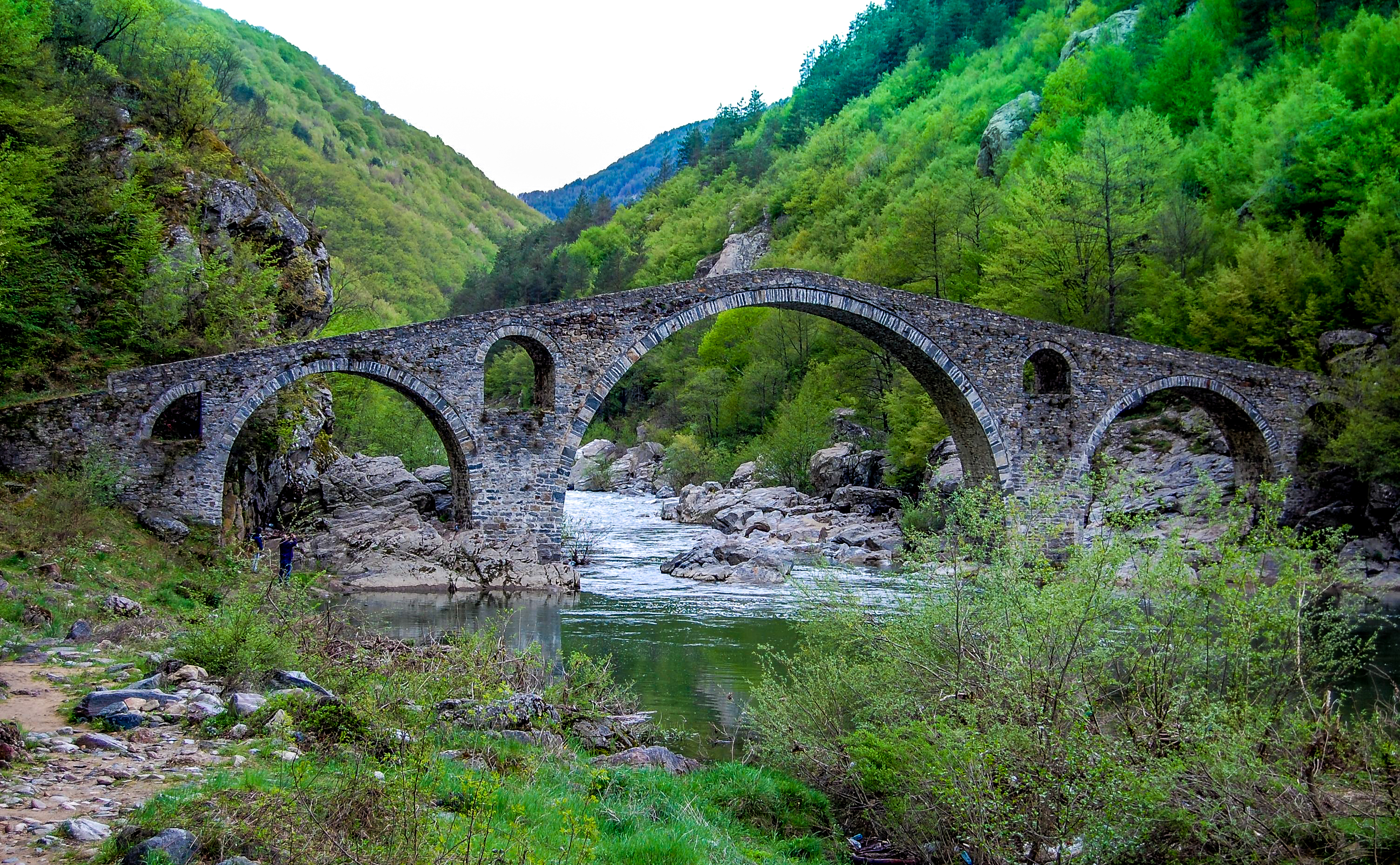 The Devil's Bridge near Ardino